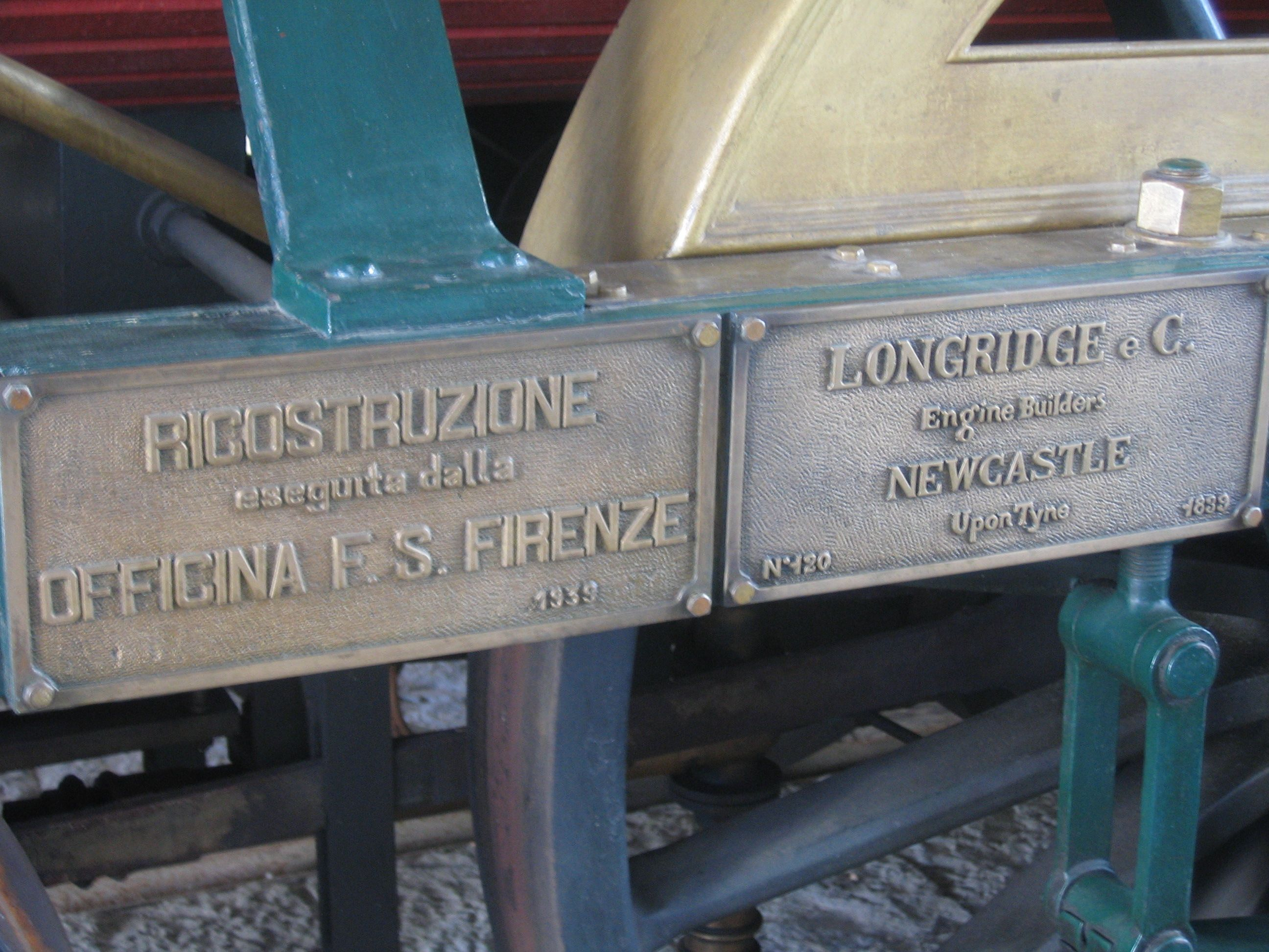 Builders' plates on a reconstruction of the locomotive Bayard of 1839, in the Pietrarsa railway museum, Italy.